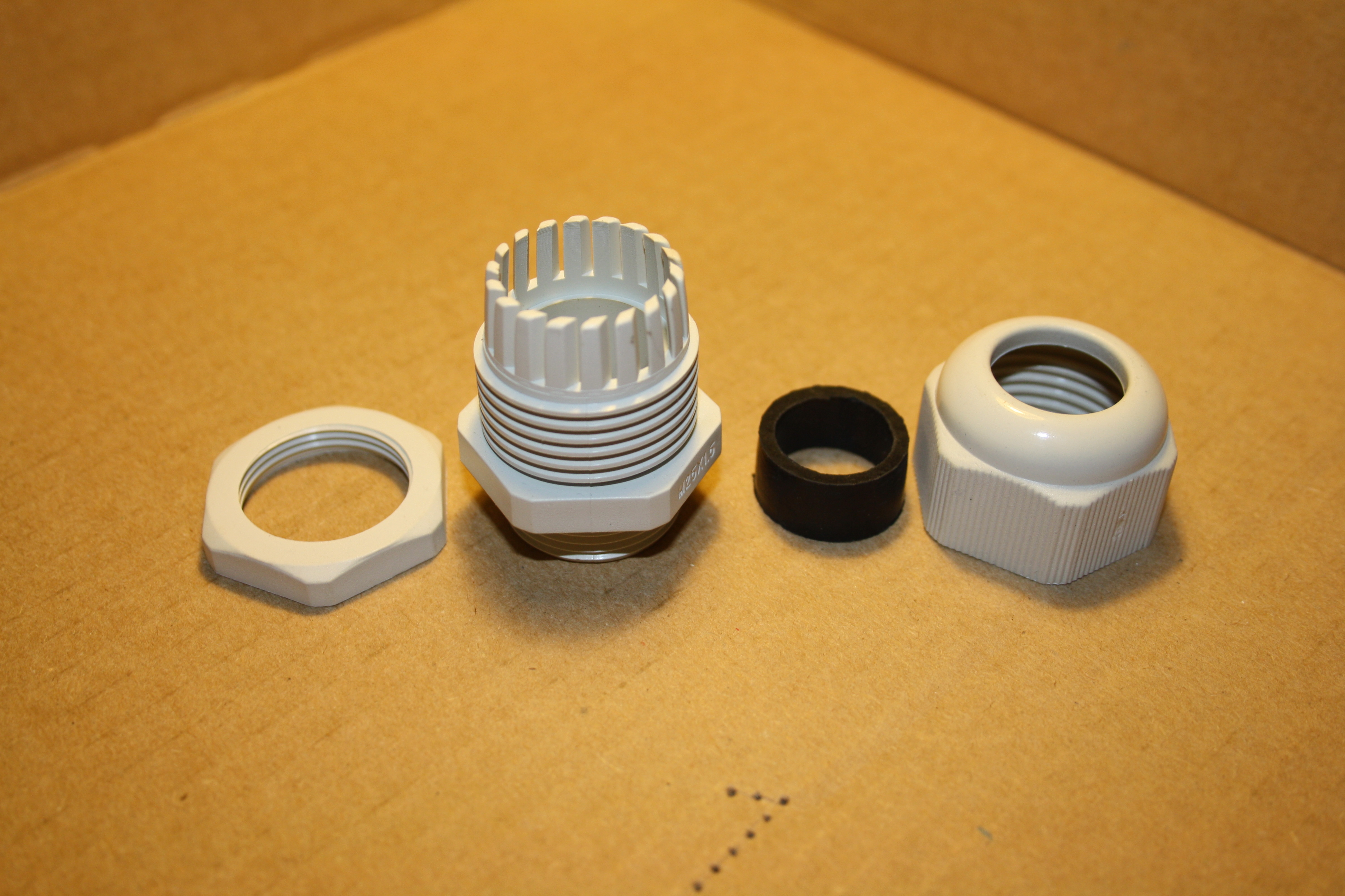 Plastic cable gland, disassembled